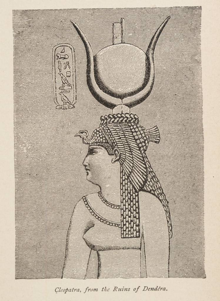 Cleopatra's profile. She is wearing simple clothing, but her hair is braided, and she is wearing a large headdress. The headdress is composed of a bird at the base and leads up to a large "u" shaped mounting for a large circular adornment. There are also hieroglyphs in the top left corner.